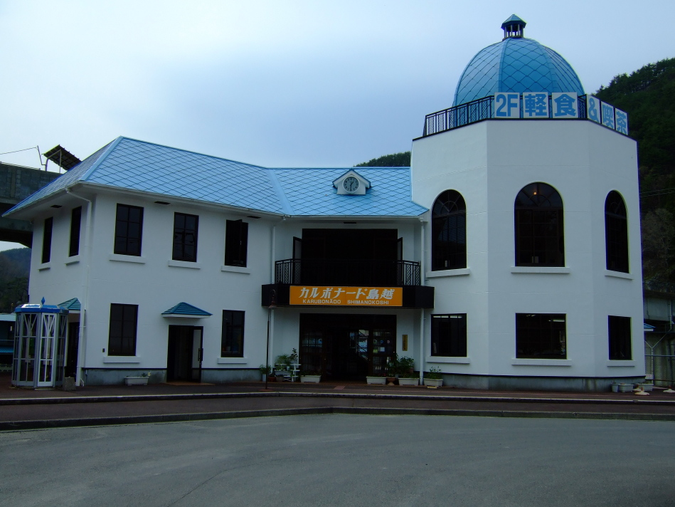 Old Shimanokoshi Station of Sanriku Railway in Tanohata, Iwate. This station is selected to ‘the station best 100 in Tōhoku area’ as "Uniquely station of a fashionable Southern Europe style where the sea stretches to the presence" in 2002.